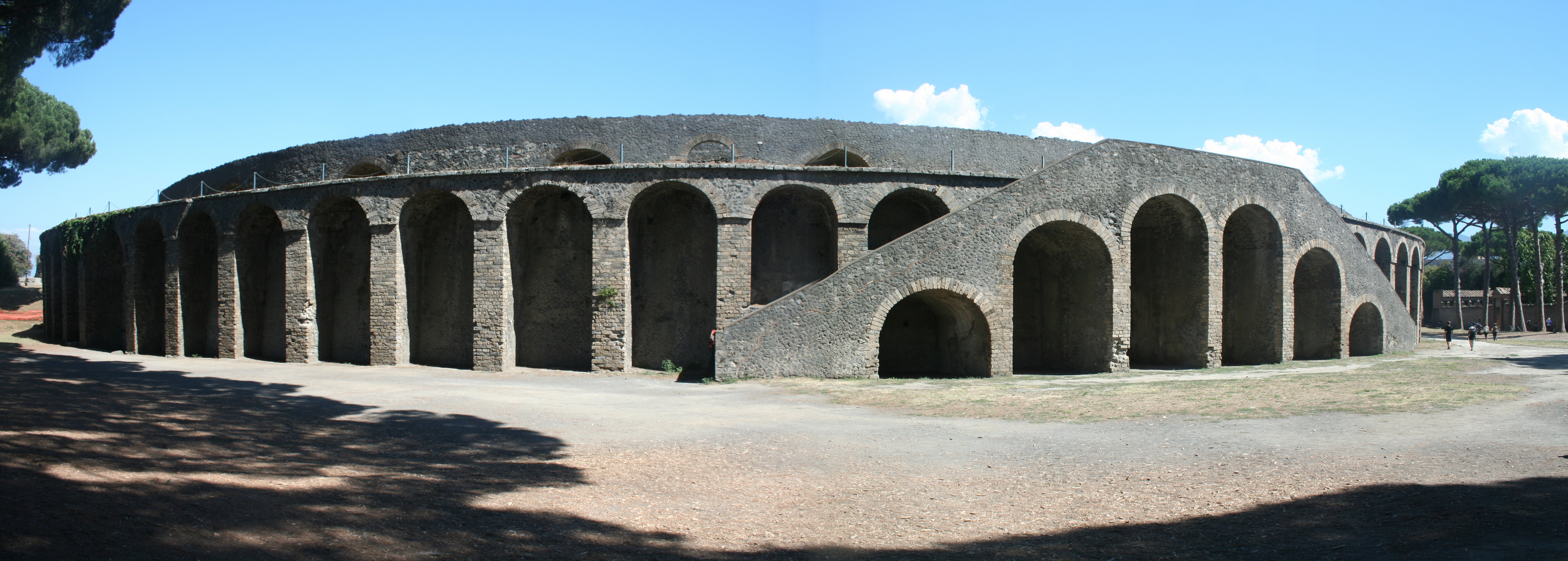 Amphitheatre in Pompeji / Italy